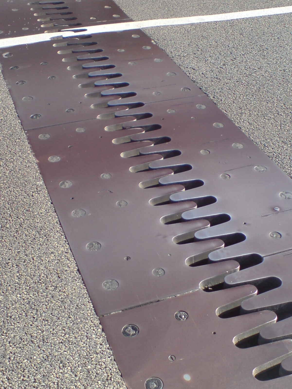 Expansion joints on the Auckland Harbour Bridge in Auckland City, New Zealand.